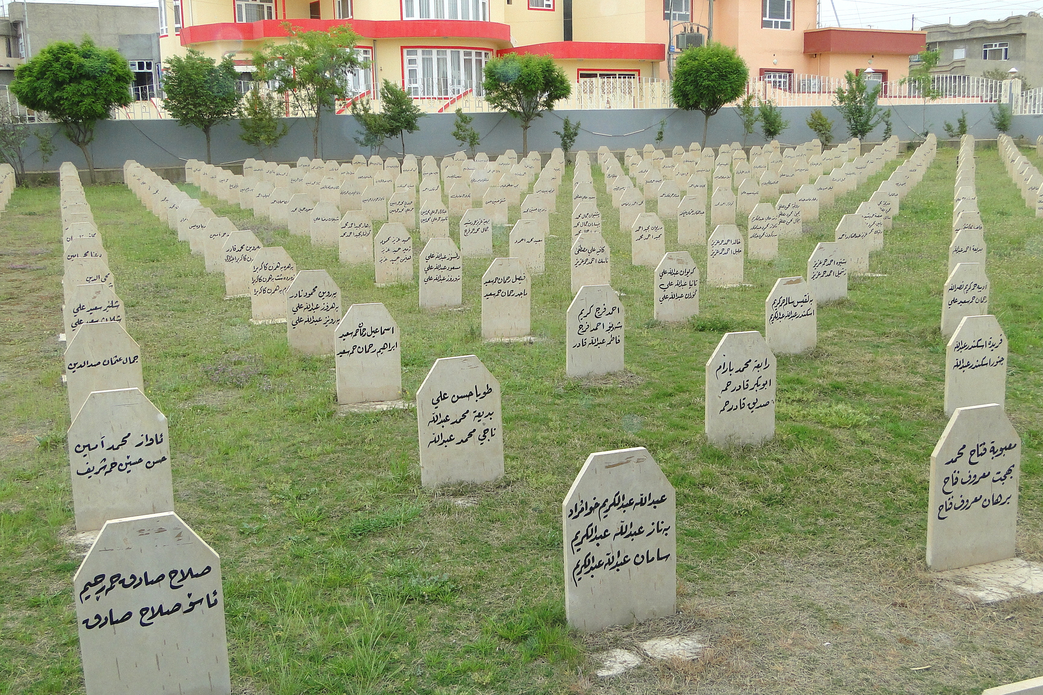 Family Graves for Victims of 1988 Chemical Attack - Halabja - Kurdistan - Iraq